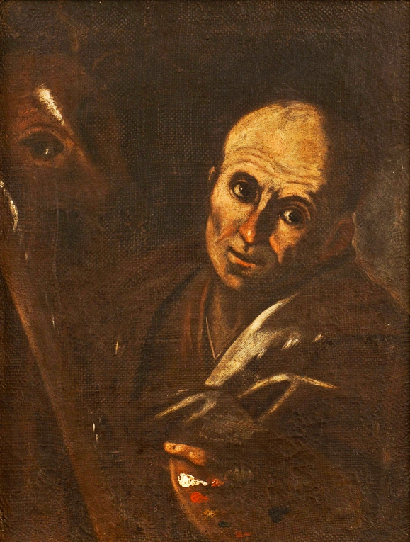 Lelio Orsi - Supposed self portrait - sec. XVII